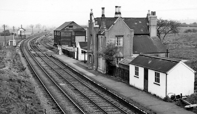 Brixworth Station. View northward, towards Market Harborough; ex-London & North Western Northampton - Market Harborough - Melton Mowbray - Nottingham secondary line. The station lost its passenger service on 4/1/60, goods on 1/6/64. The line was reopened for limited periods after that and not closed completely by BR until 15/8/81. Subsequently the Heritage Northampton & Lamport Railway has been able to lease the trackbed and is restoring the route.